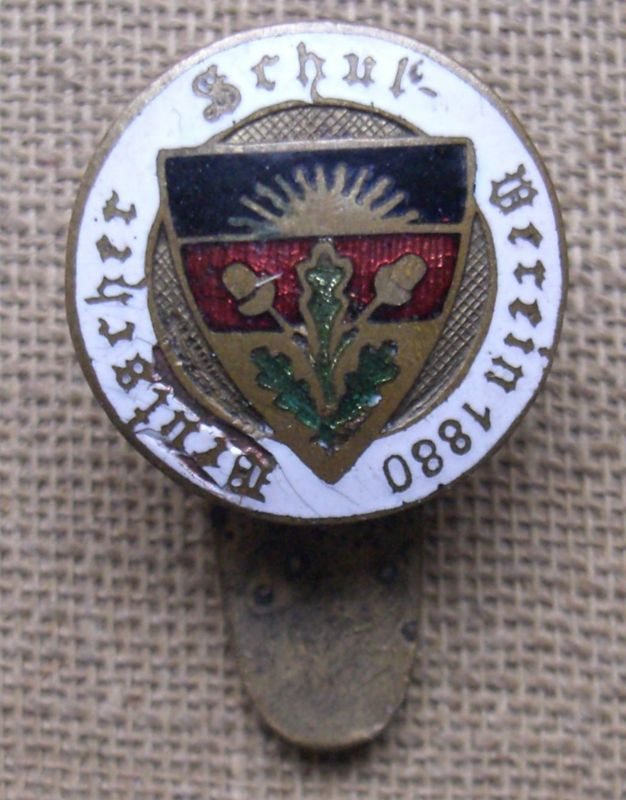 A DSV (Deutscher Schulverein) 1880 badge, maker marked (ADOLF BELADA WIEN VII)